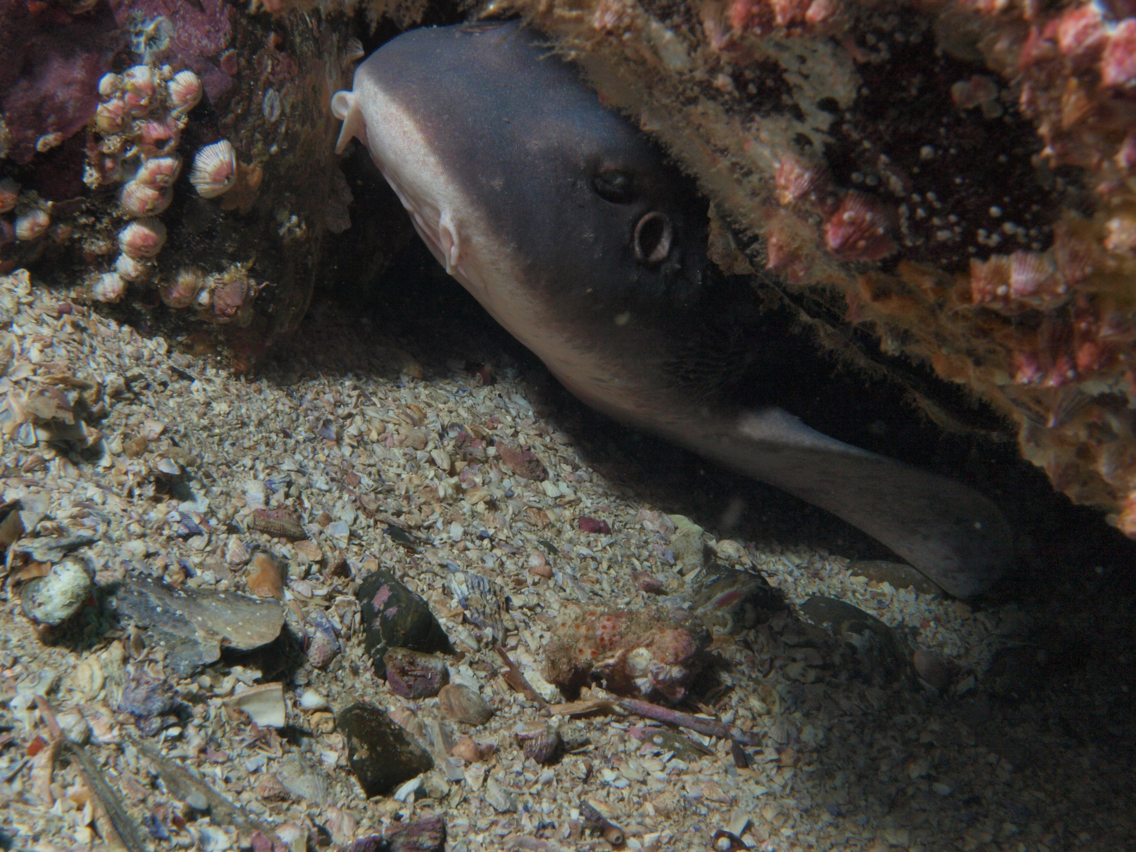 Blind shark (Brachaelurus waddi) off Byron Bay